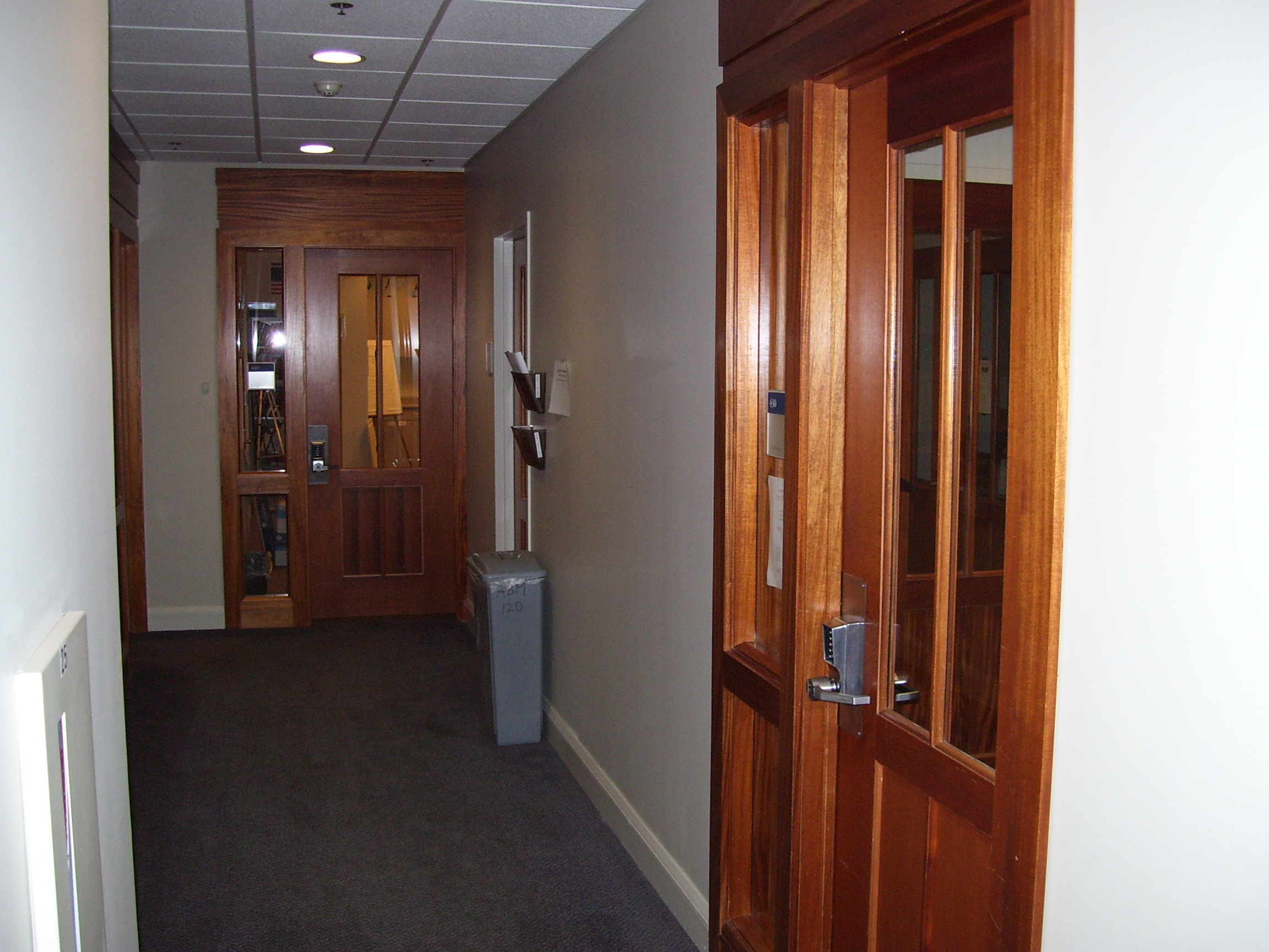 This is my 2008 photo of the Suffolk University Law School law review office suite.